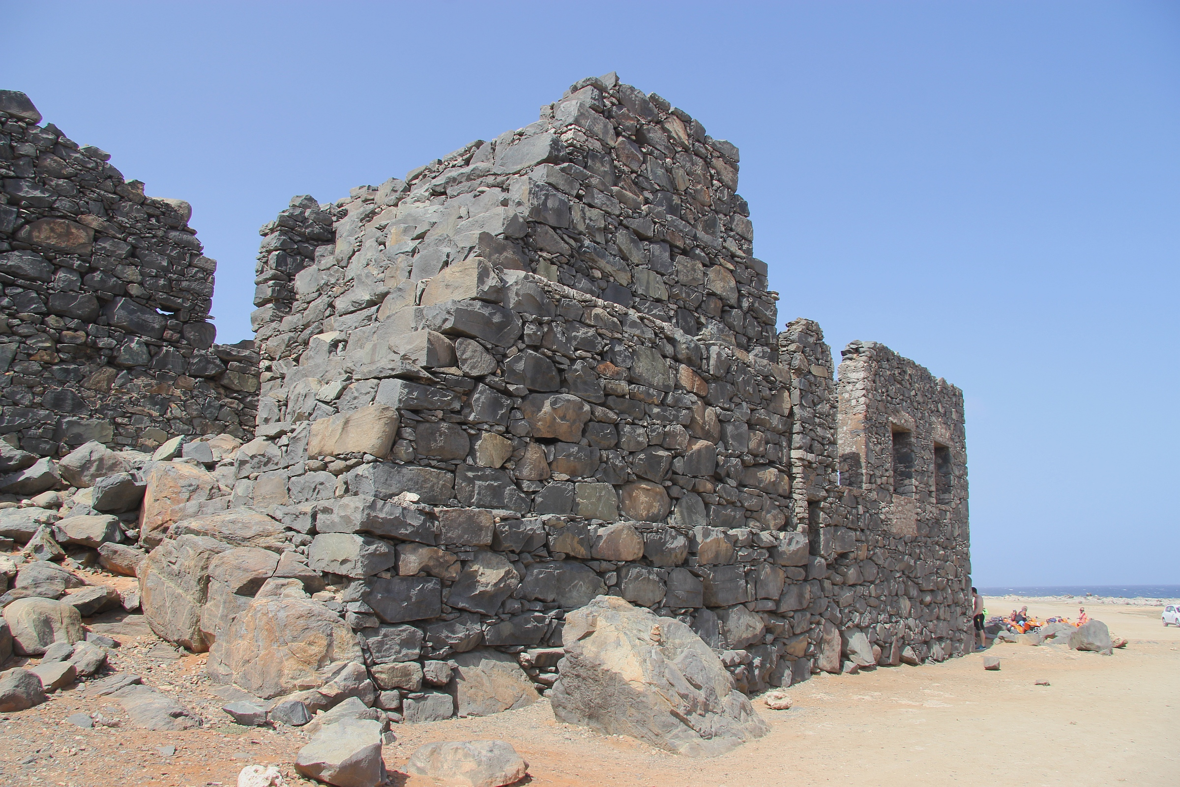 Aruba, Ruins of Bushiribana Gold Mine